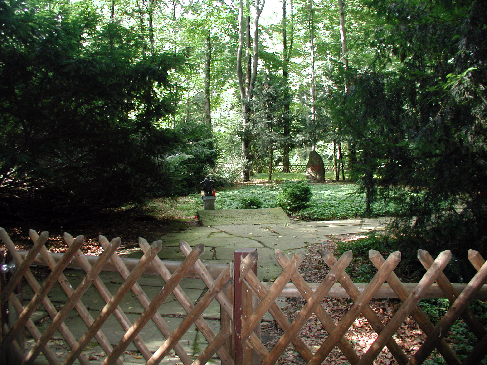 Cologne, memorial for 74 by Nazis murdered persons